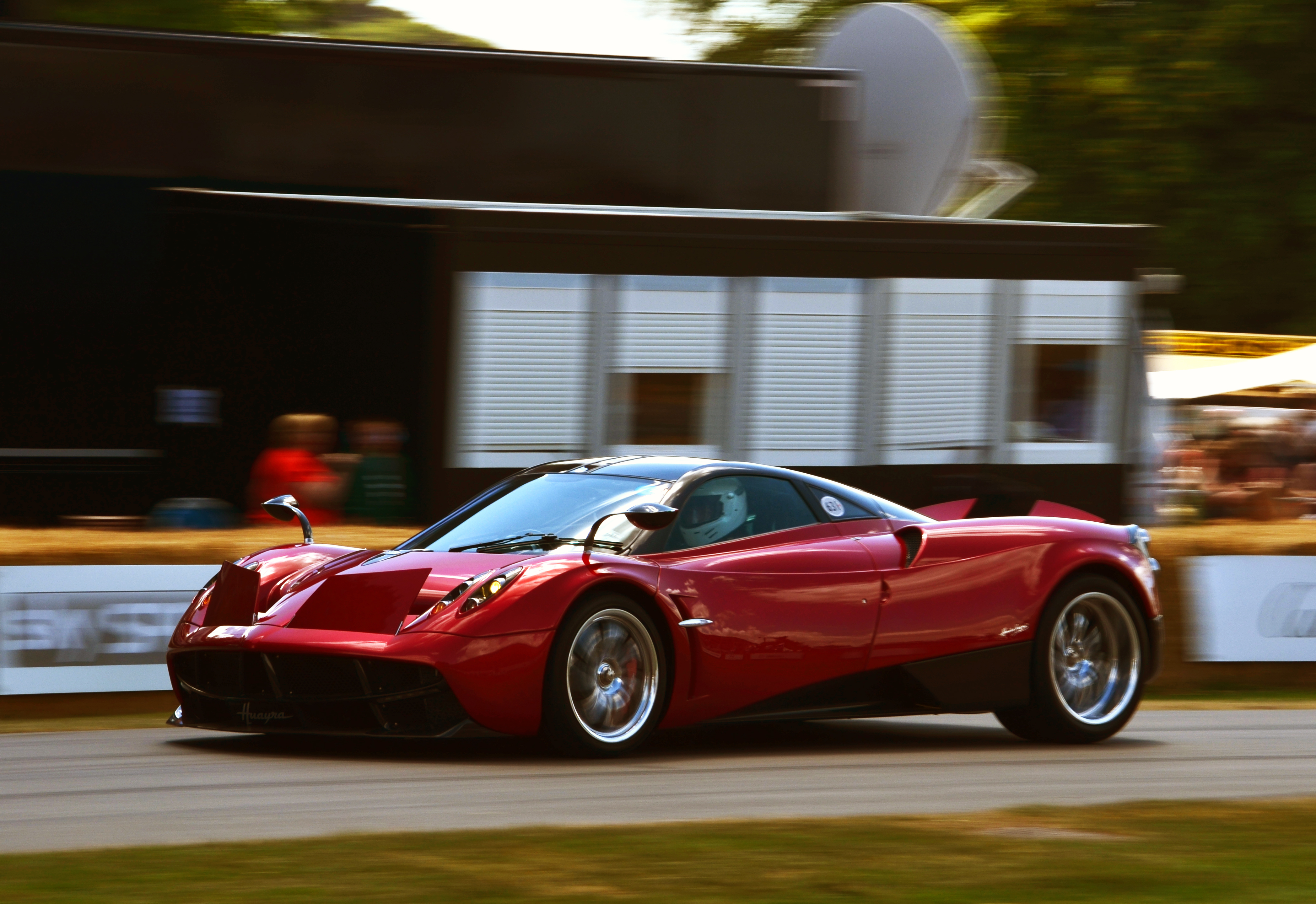 The Pagani Huayra at the 2014 Goodwood Festival of Speed.